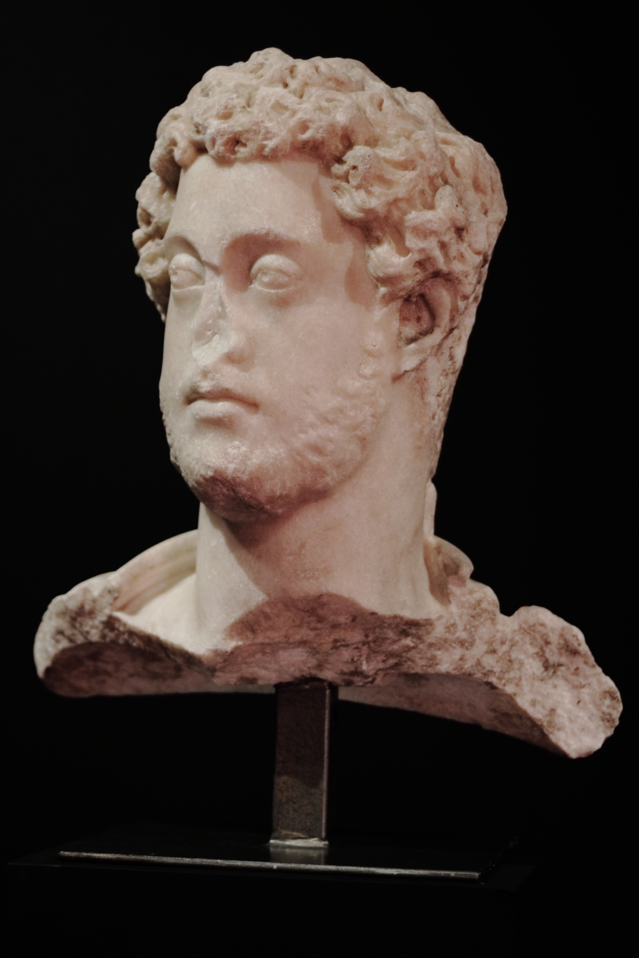 Fragmentary bust of Emperor Commodius wearing the cuirass, type III or type Vatican Busti 368.